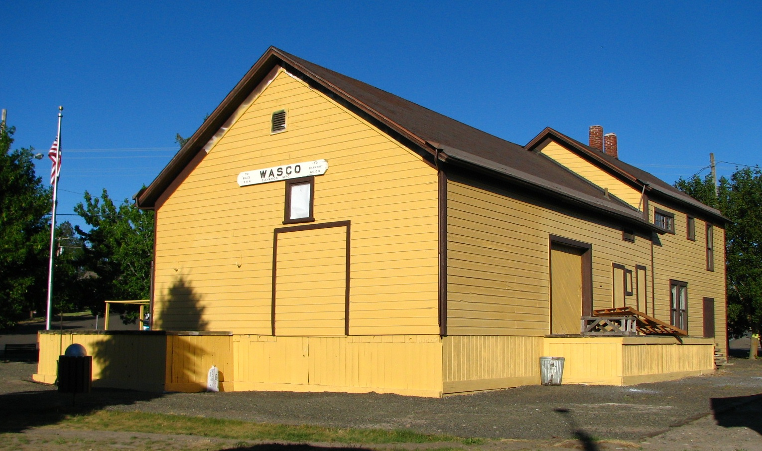 The Columbia Southern Railroad Passenger Station and Freight Warehouse (built 1898) in Wasco, Oregon, United States, is listed on the US National Register of Historic Places.